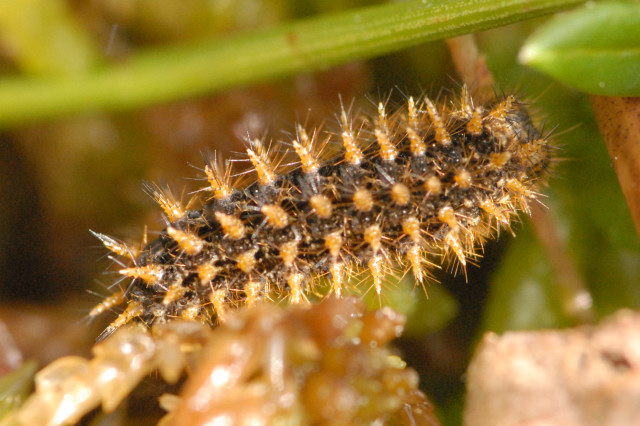 Melitaea athalia from Commanster, Belgian High Ardennes .